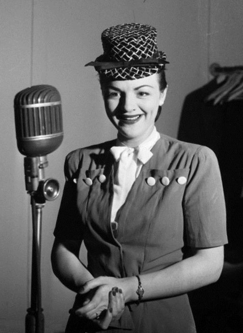 The popular singer Alys Robi during the recording of the radio show "Revoir Paris".